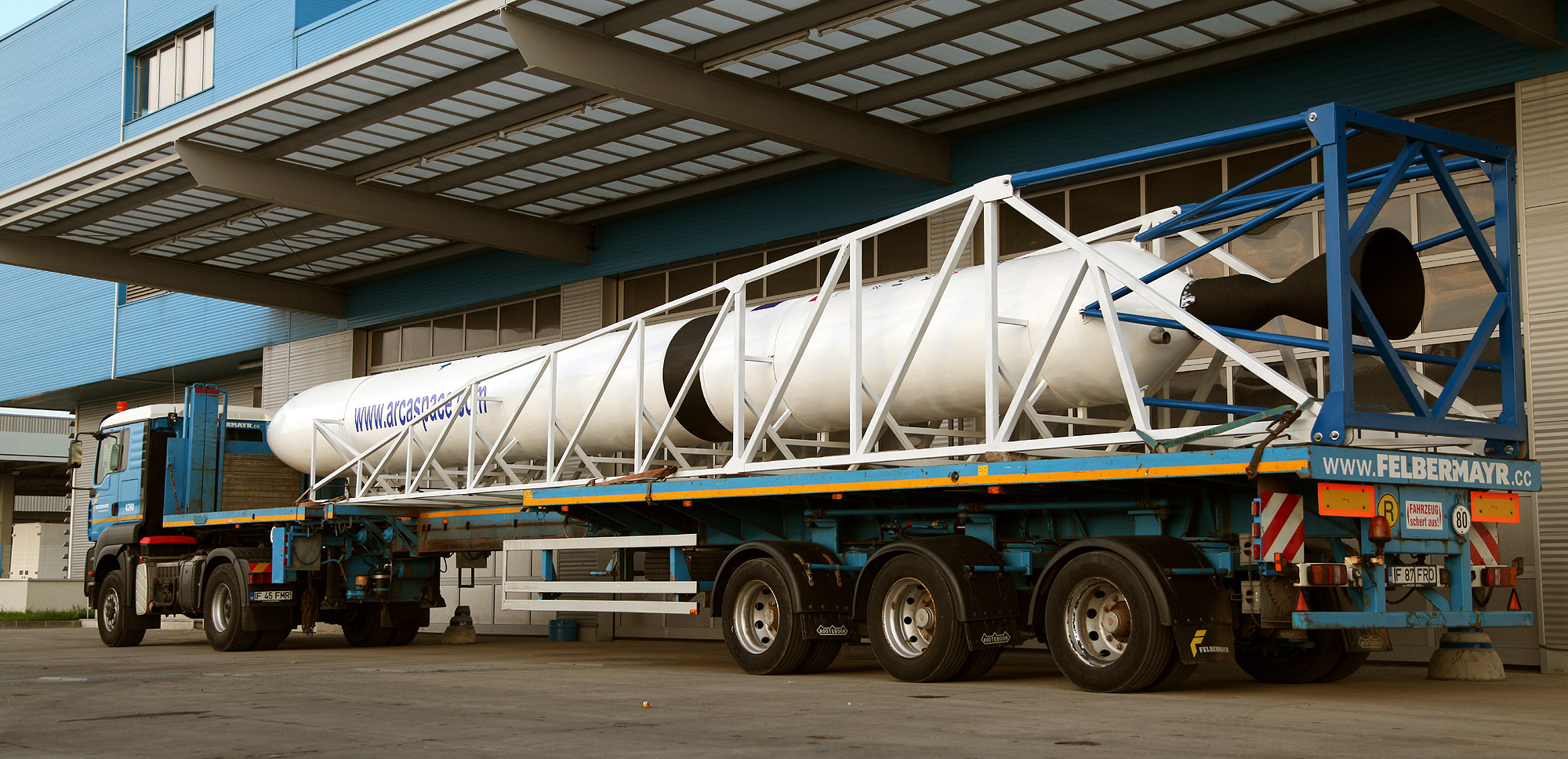 Haas 2c rocket being transported to Bucharest for presentation.